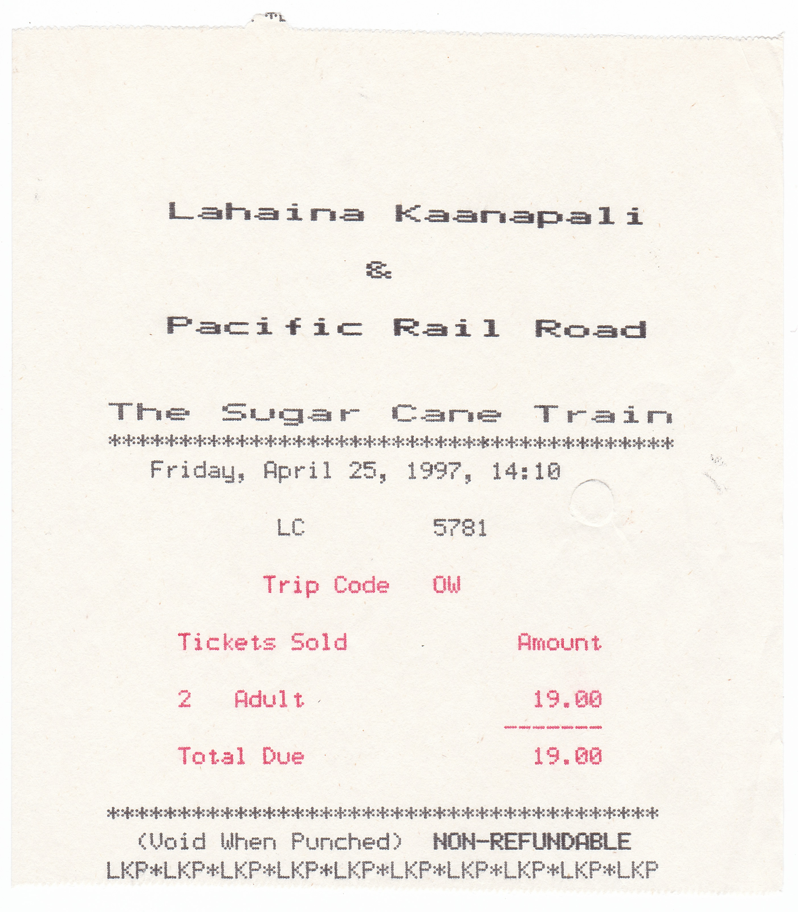 The Sugar Cane Train Ticket 1997-04-25